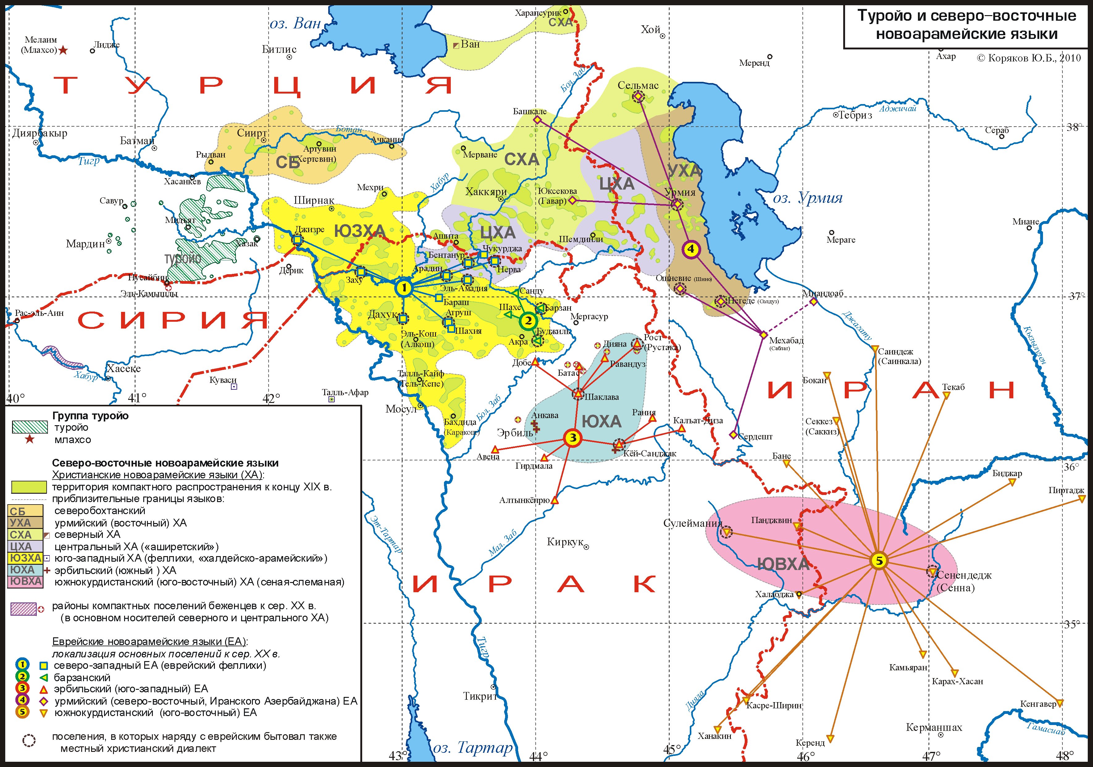 Map of the Northeastern Neo-Aramaic languages, in Russian language.